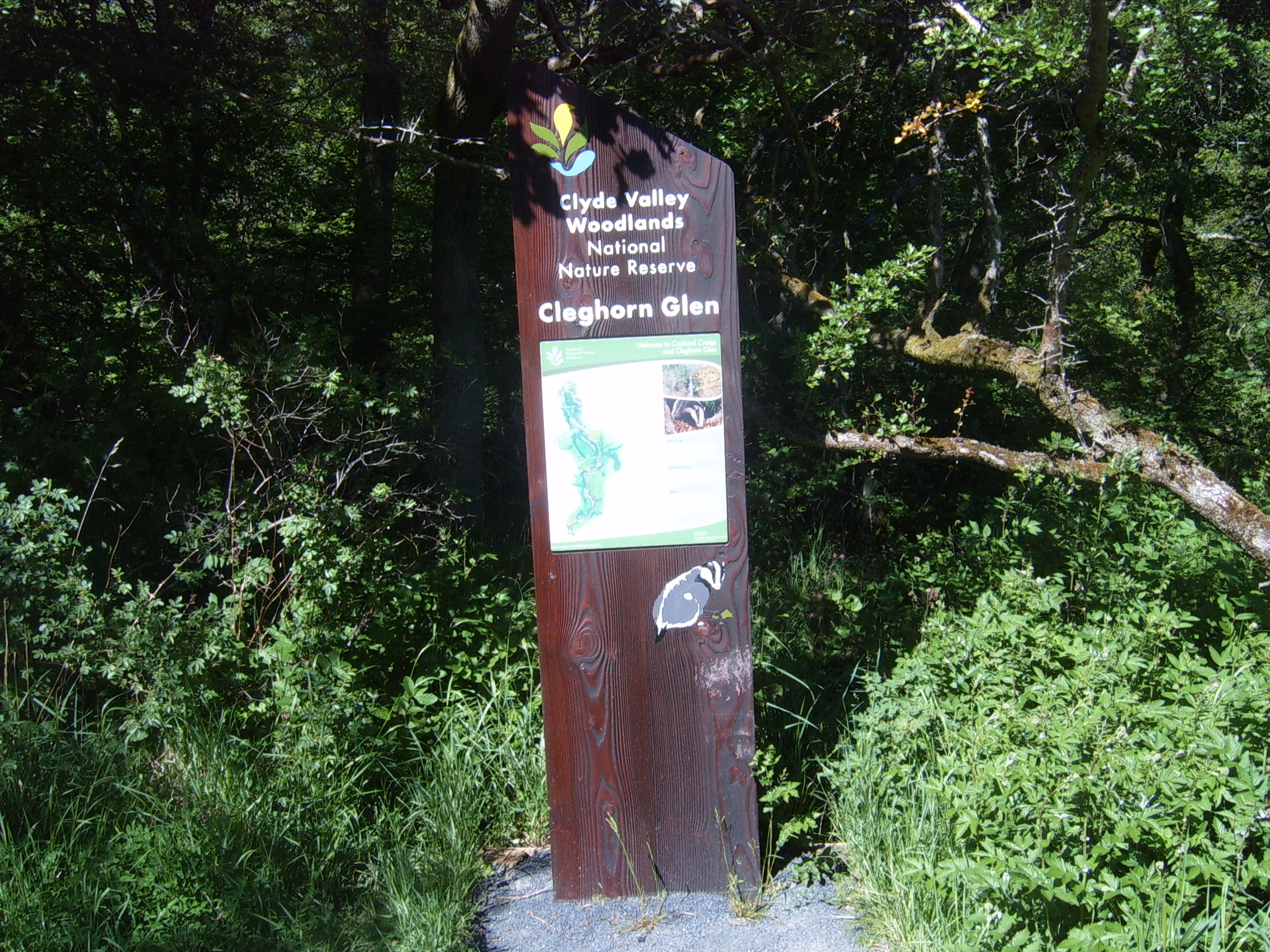 Sign at the start of the reserve.